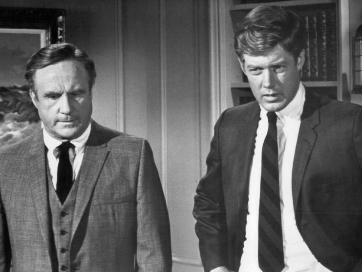 Photo of Frank Converse and Jack Warden from the television program N.Y.P.D.".